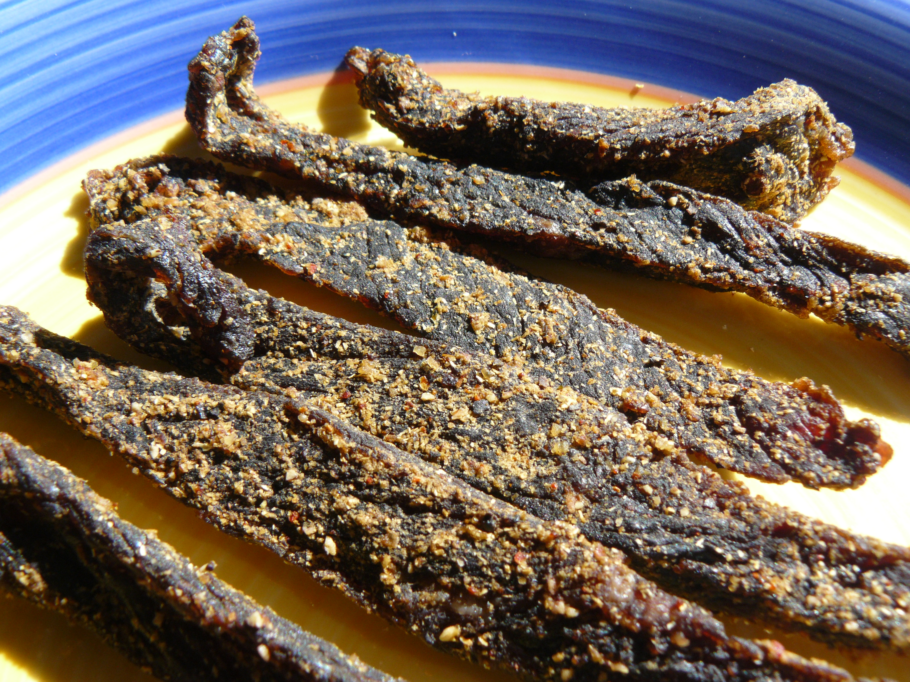 Biltong Stokkies, Author: Jamsta